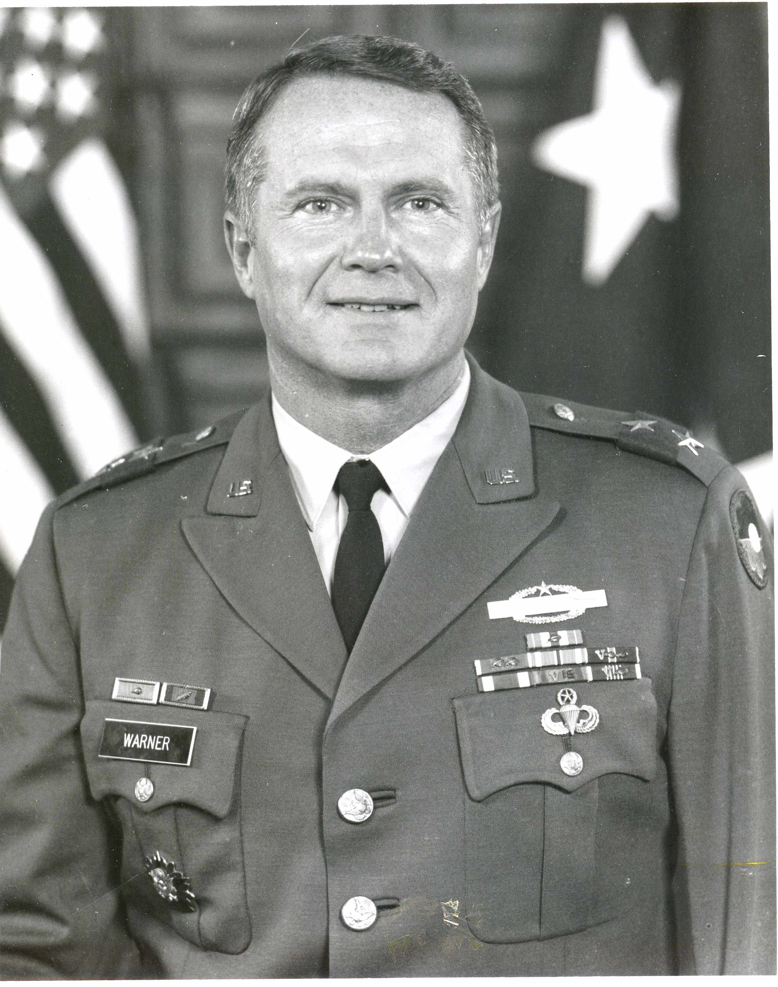 General Volney F. Warner from [1]